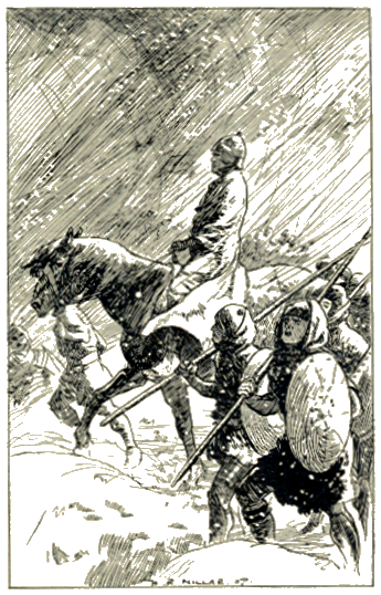 Stories from Ancient Rome by Alfred J. Church